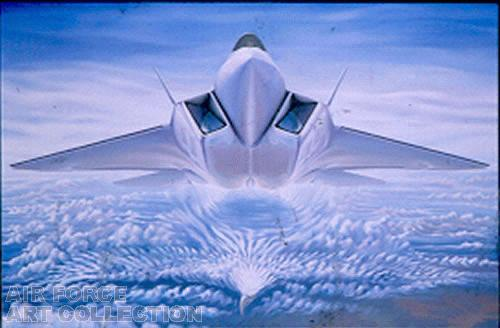 Spirit of the Raptor (F-22) by Lee Bivens comissioned by the United States Air Force